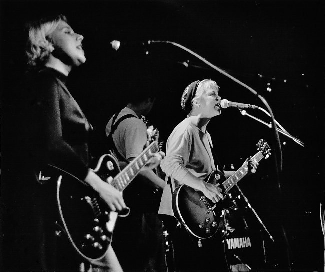 Throwing Muses: Tanya Donelly, Frad Abong & Kristin Hersh touring the Real Ramona album. The Mayfair, Glasgow March 1991 More neate photos